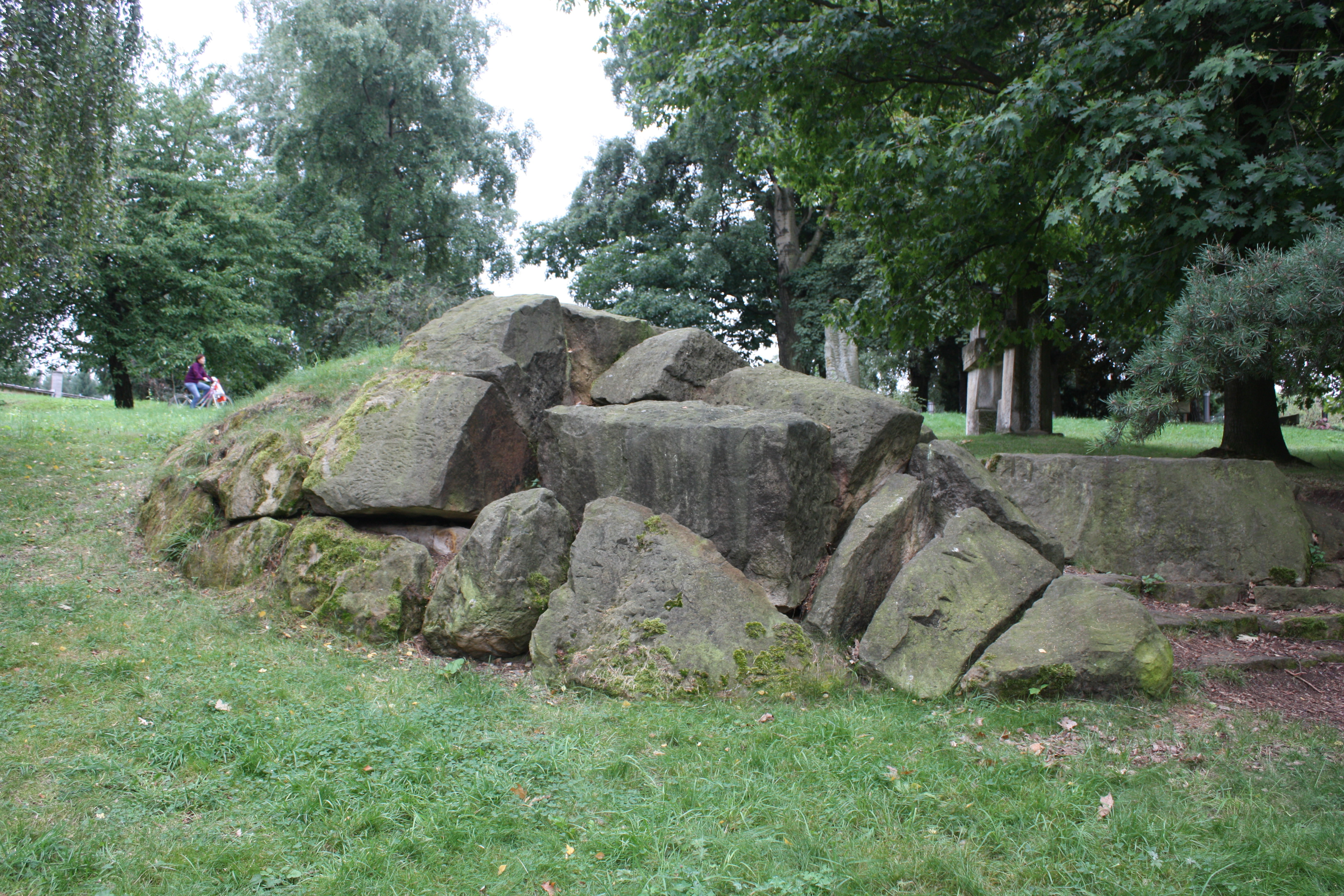 Sculpture park in Hořice.